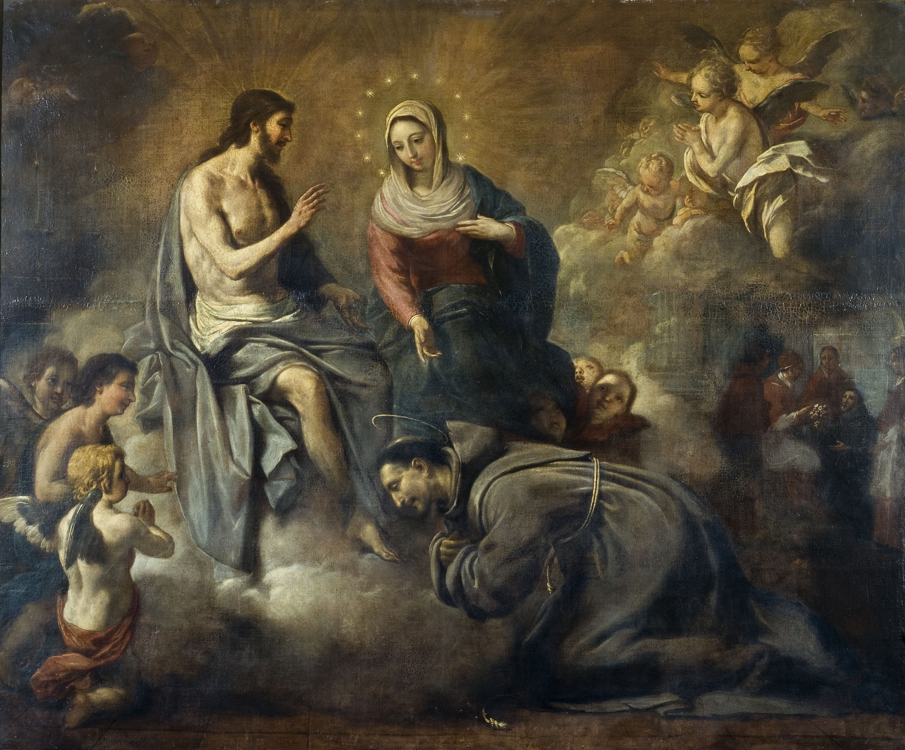 Jesus gives St. Francis indulgence of the Portiuncula